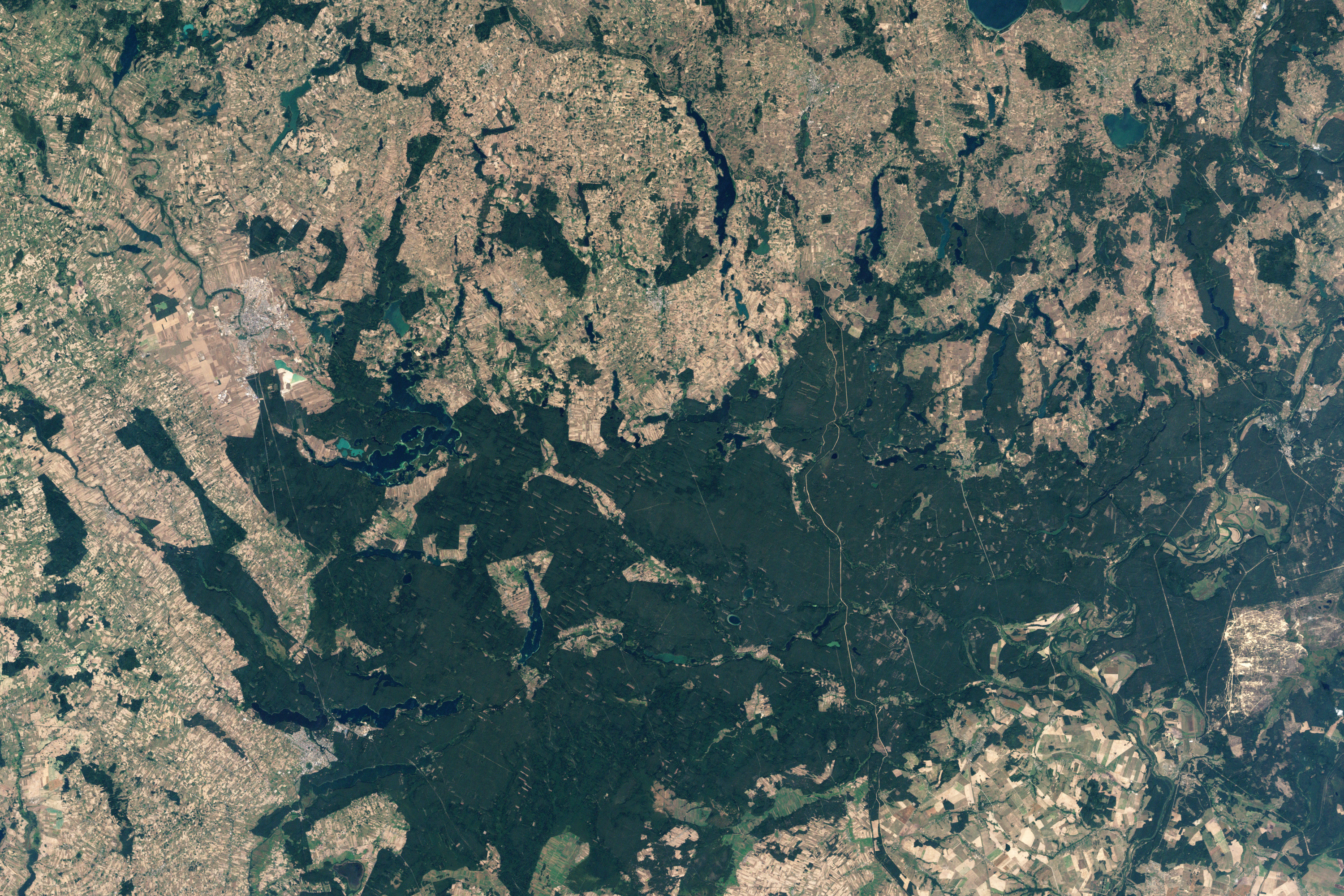 NASA’s Landsat 7 satellite captured this image of Rospuda Valley. This true-color image shows a patchwork of peat bog and agricultural fields. In contrast to the nearly uniform deep-green wetlands, the fields appear as close-knit rectangles of varied shades of green and beige. Rospuda River meanders between cultivated fields in the northwest and wetland territory in the southeast, connecting with Lake Necko. Numerous other lakes and ponds appear north and east of Lake Necko, some of them overlapping agricultural areas.